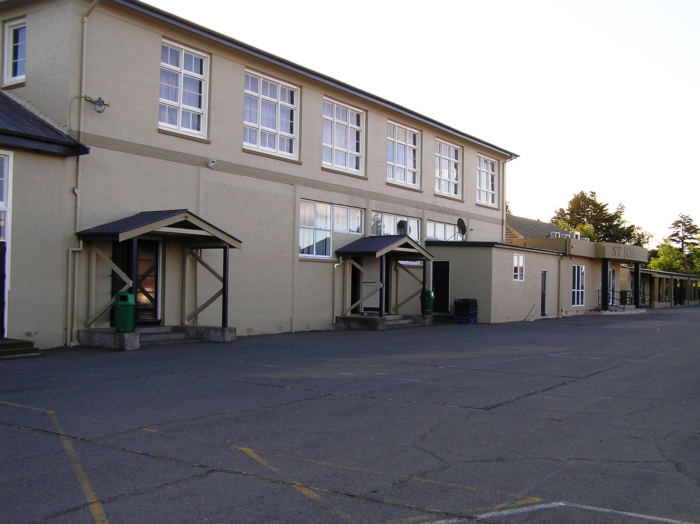 St Joseph's School Papanui at dusk Nov 2008